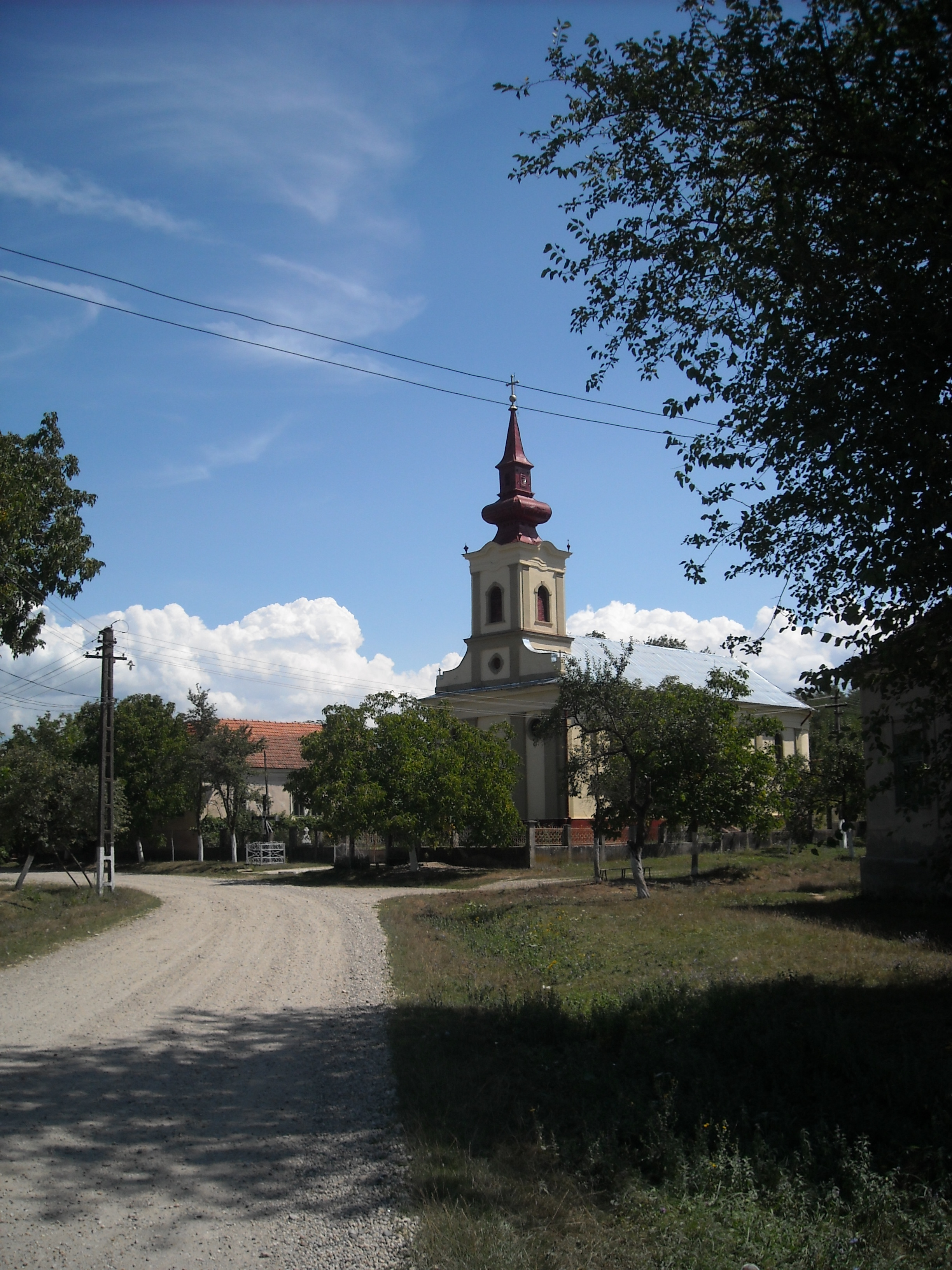 Orthodox church in Belotinț, Arad County, Romania